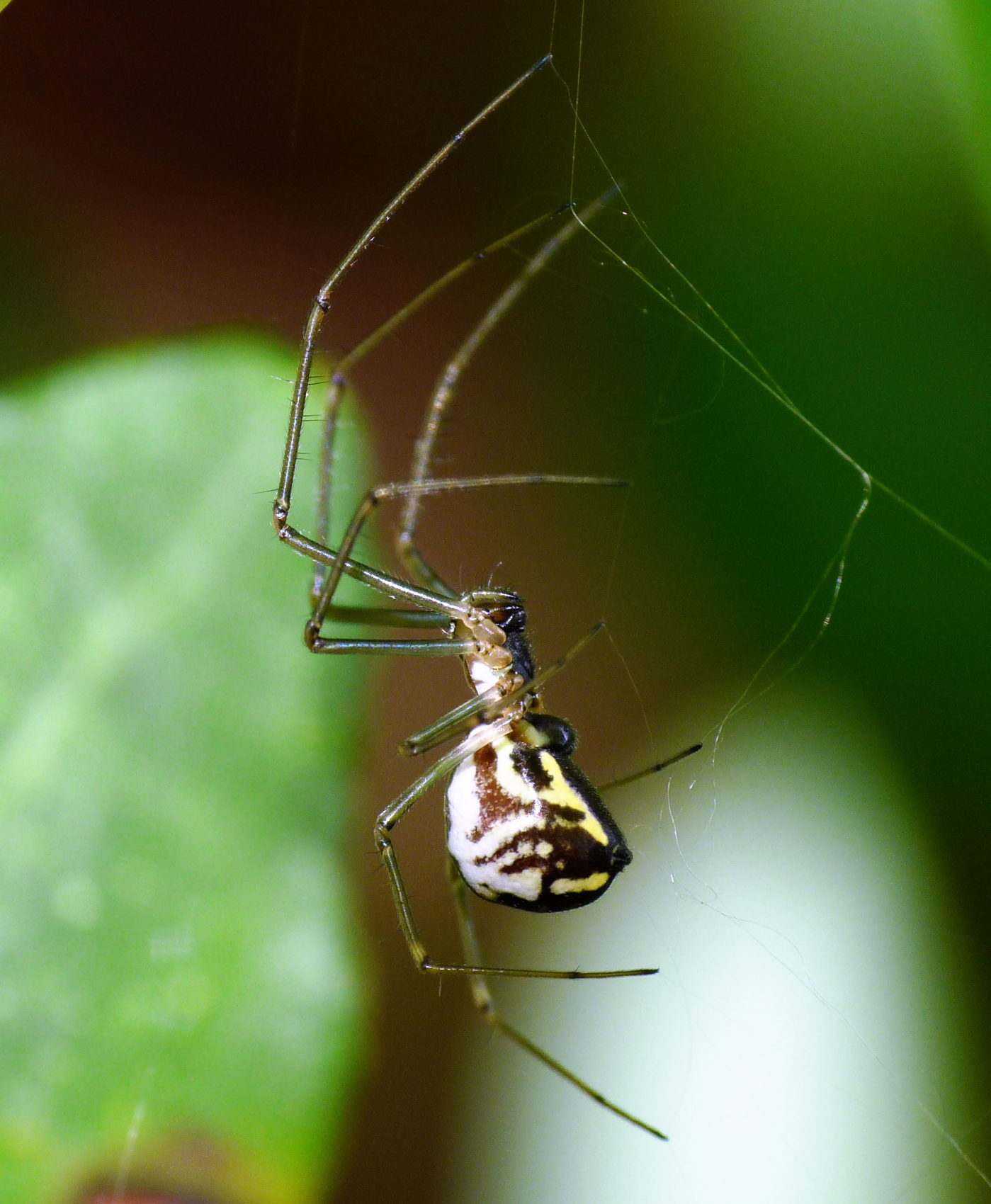 Neriene radiata, female, near Livorno, Tuscany, Italy